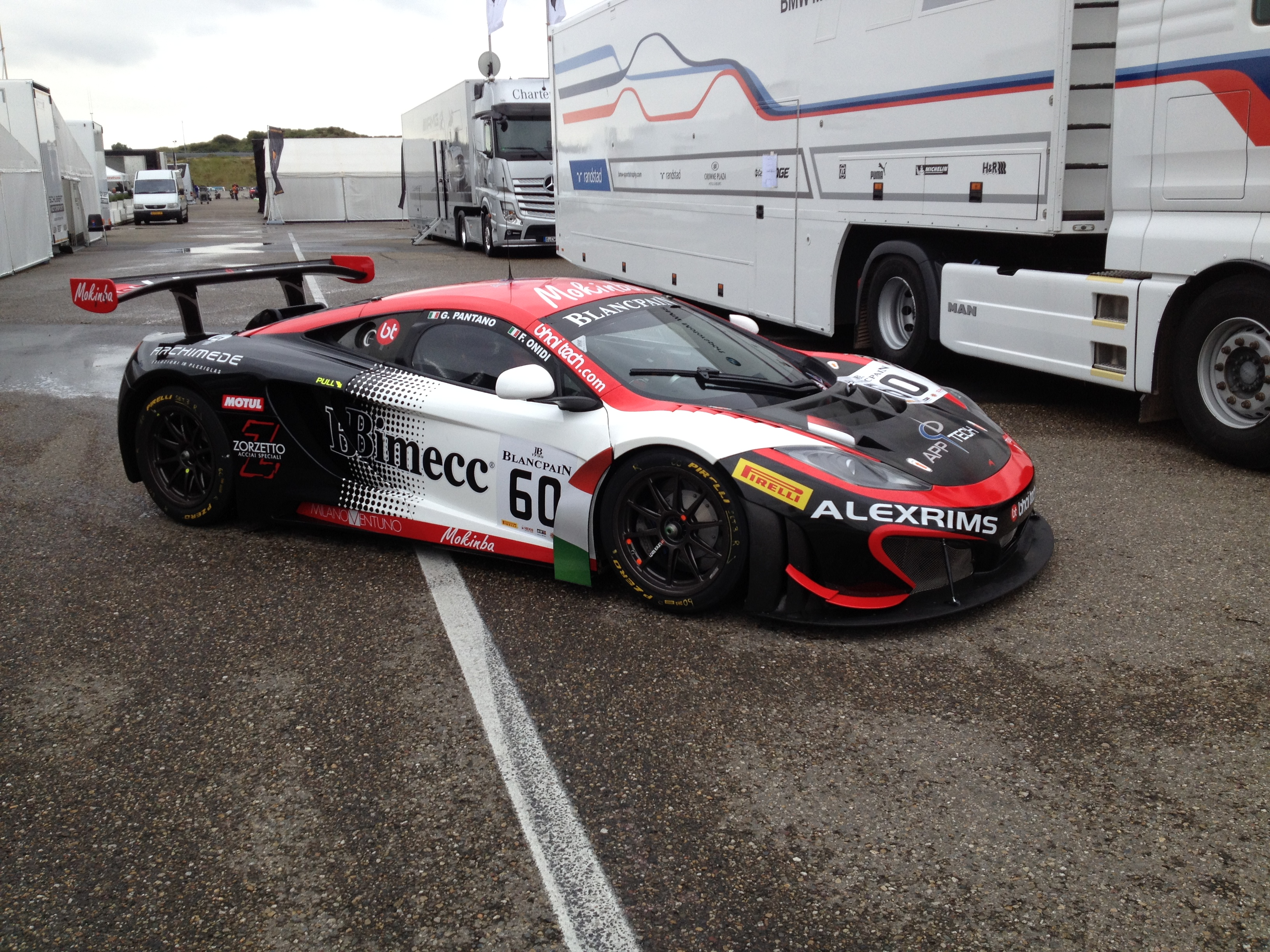 The McLaren MP4-12C entered by Bhaitech in the Blancpain Sprint Series. Photographed during the 2014 Zandvoort Masters.